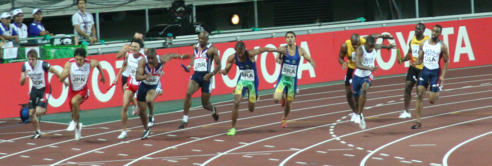 World Athletics Championships 2007 in Osaka - Final exchange during the men*s 4*100 metres relay final: Julian Reus, Nobuharu Asahara, Shinji Takahira, Mark Lewis-Francis, Marlon Devonish, Sandro Viana, Basílio de Moraes, Asafa Powell, Leroy Dixon, Nesta Carter, Tyson Gay